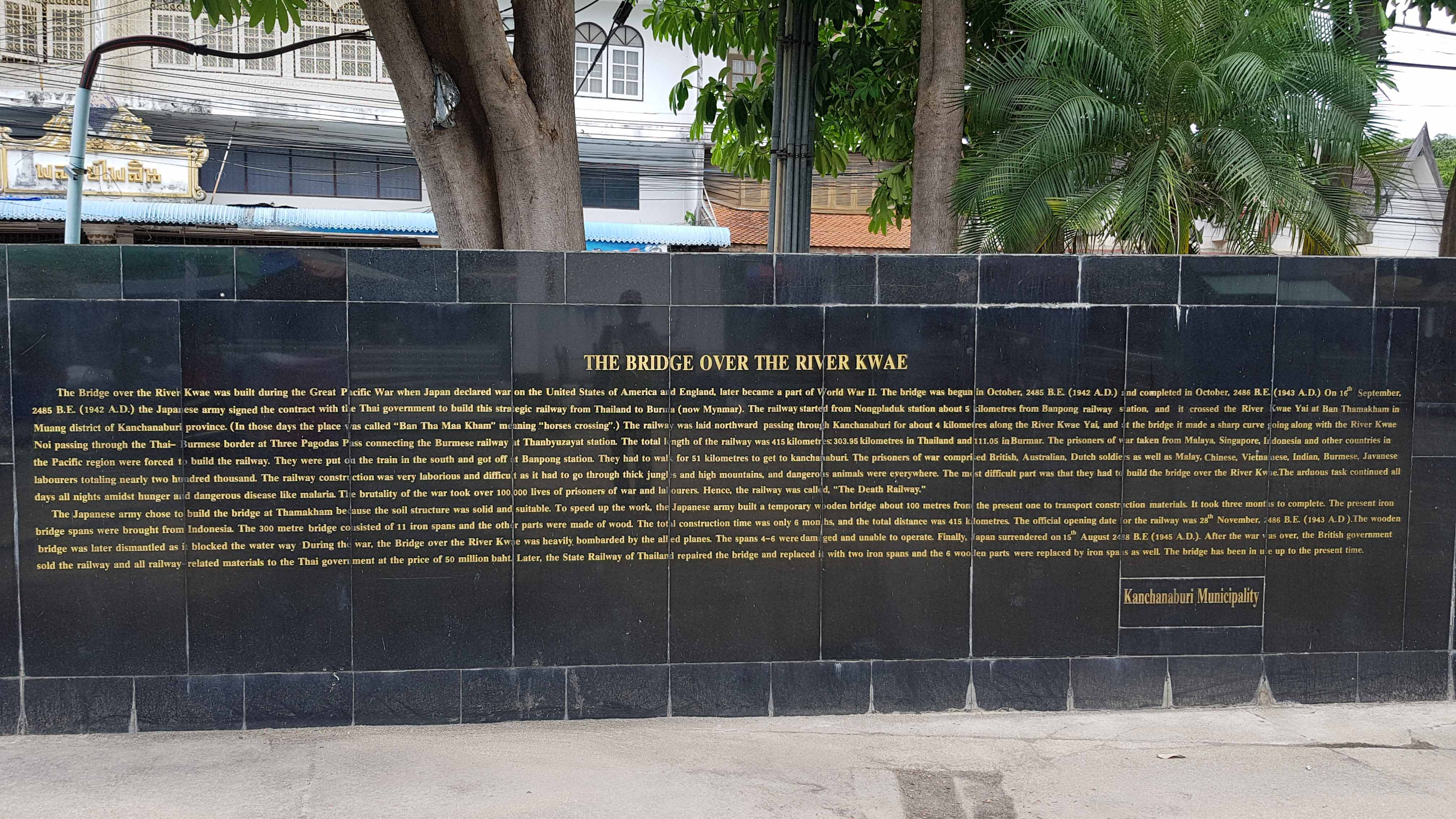 History By Kanchanaburi Municipality. Located near this bridge.